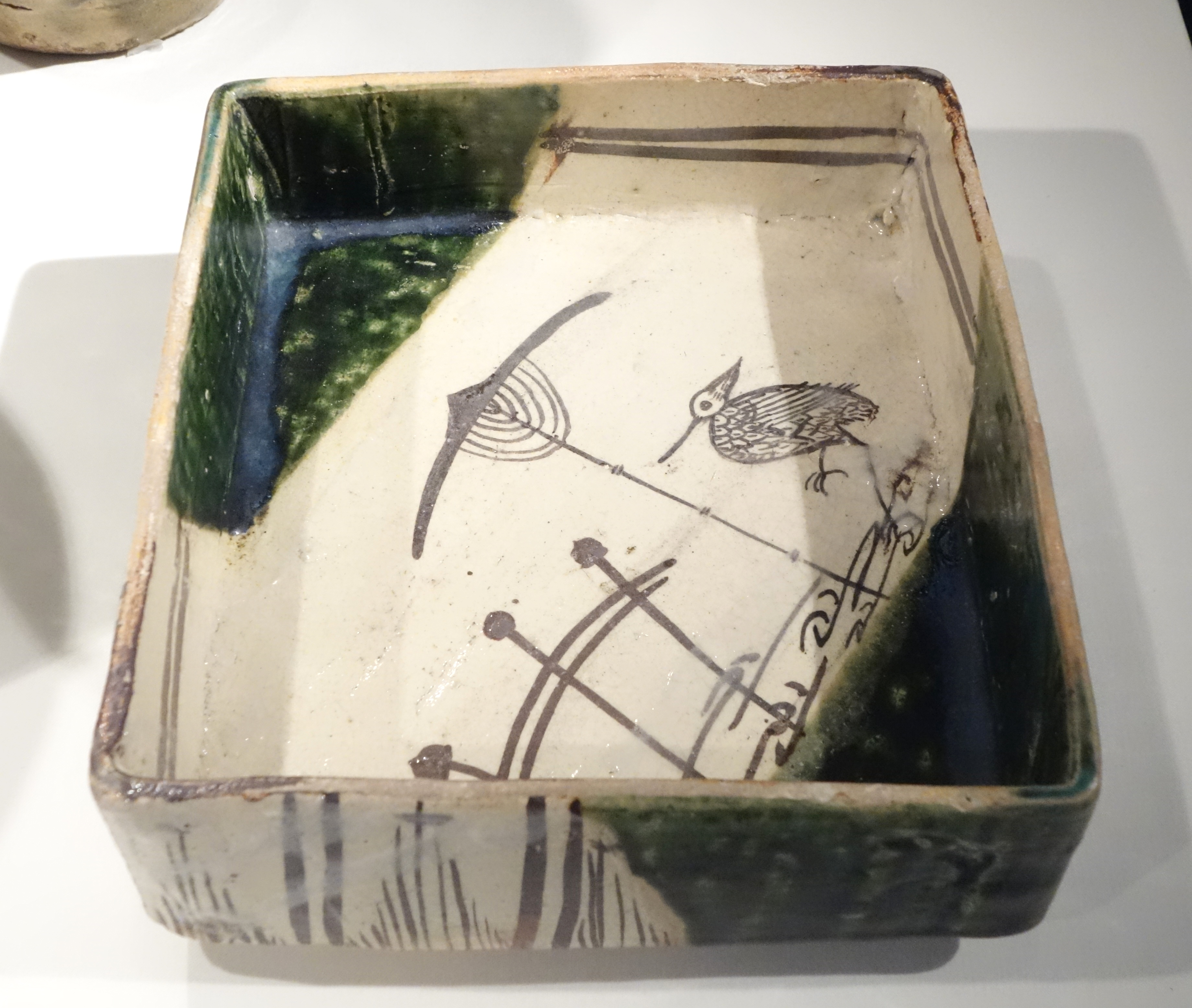 Exhibit in the Asian Art Museum of San Francisco, San Francisco, California, USA. This artwork is in the public domain because the artist died more than 70 years ago.